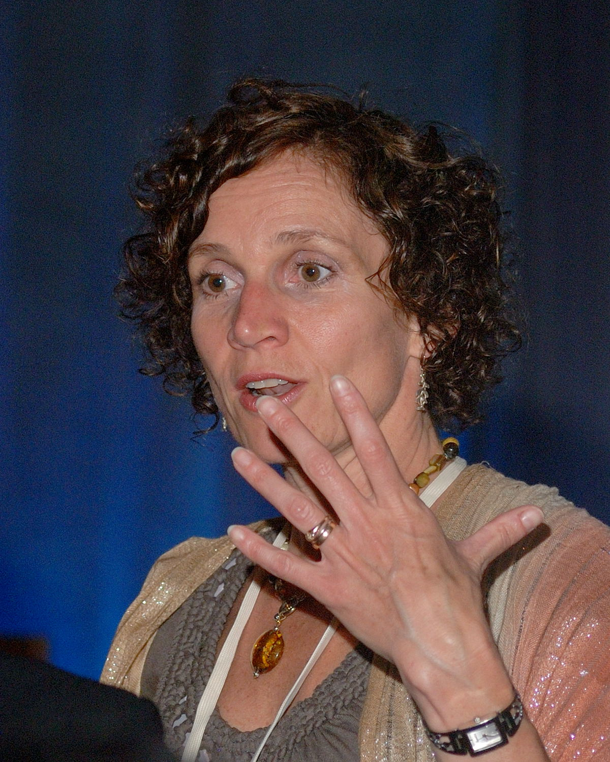 Barbara Liskov at the ACM Turing Centenary Celebration